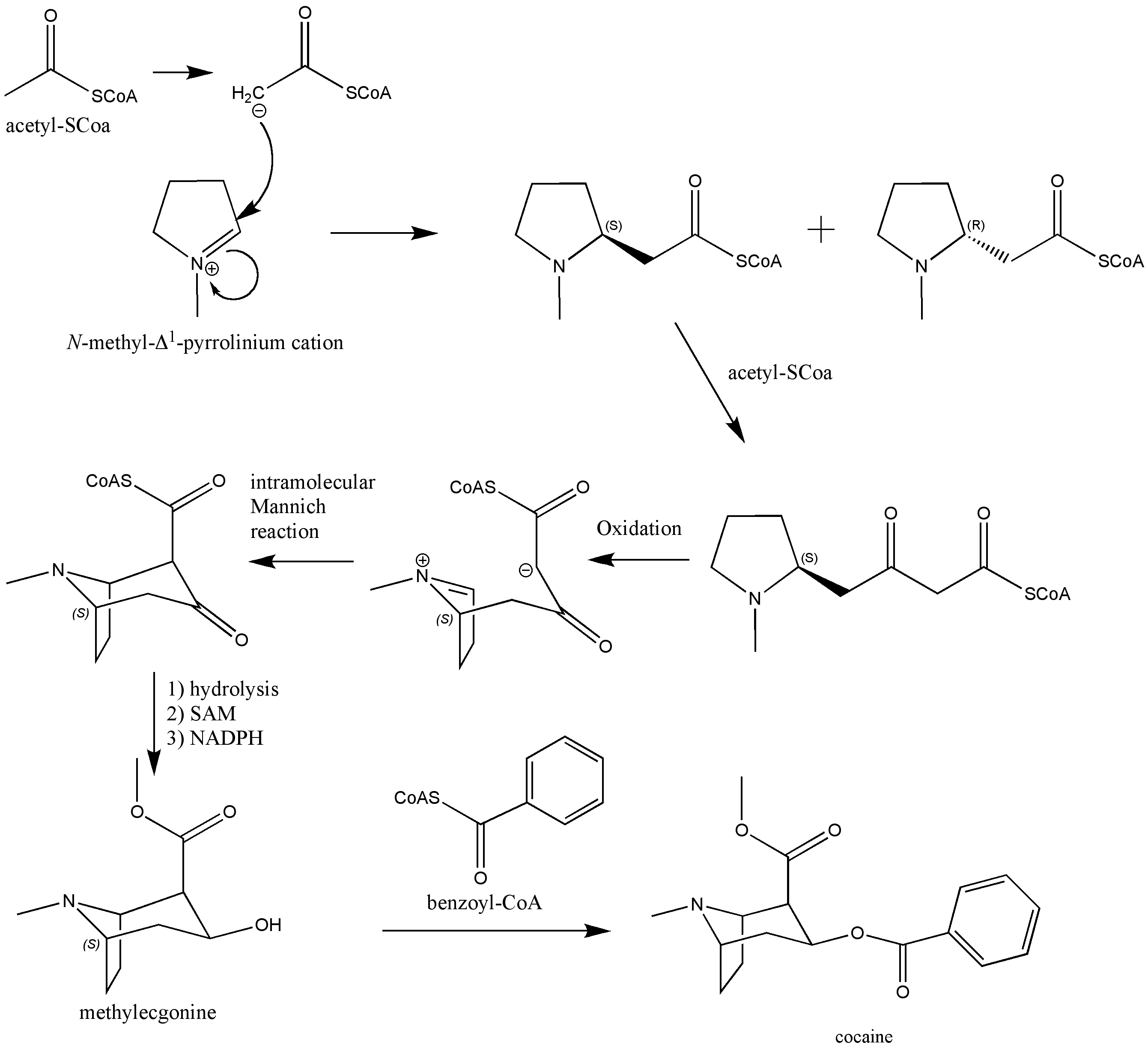 Mechanism of the biosynthesis of cocaine, starting from N-methyl-pyrrolinium cation